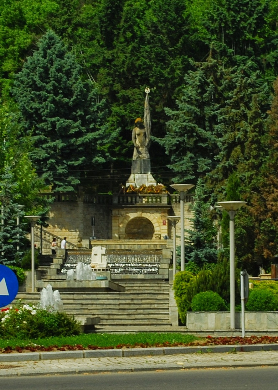 Romanian Independence monument in Râmnicu Vâlcea, RomaniaRomână: Monumentul Independenței (1913-1916) din Râmnicu Vâlcea (Str. Carol I 9A, pe „Dealul Capela”), România